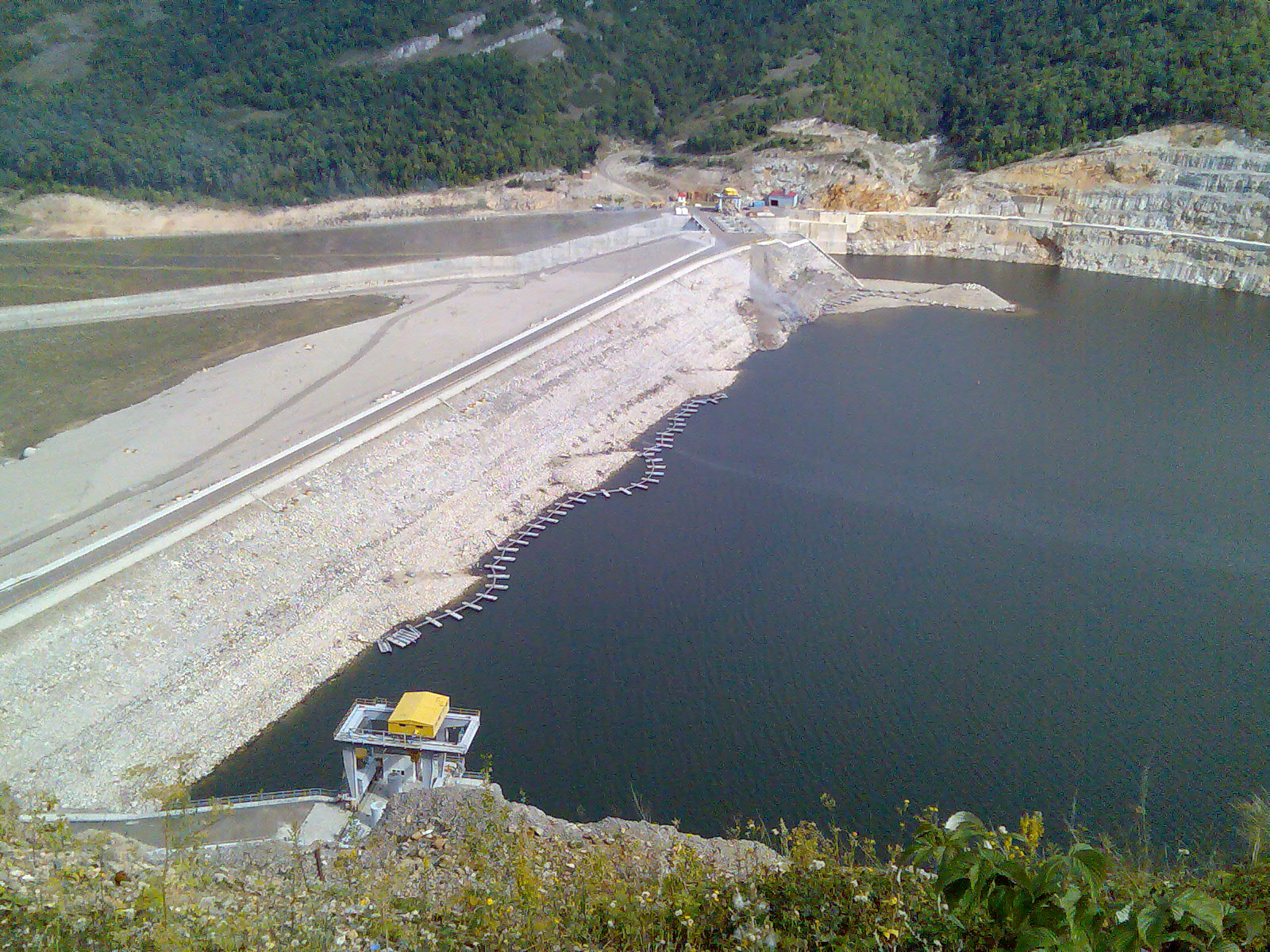 Yumaguzino Dam, Bashkortostan - Russia.